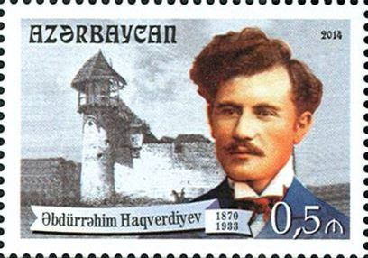 Stamps of Azerbaijan, 2014